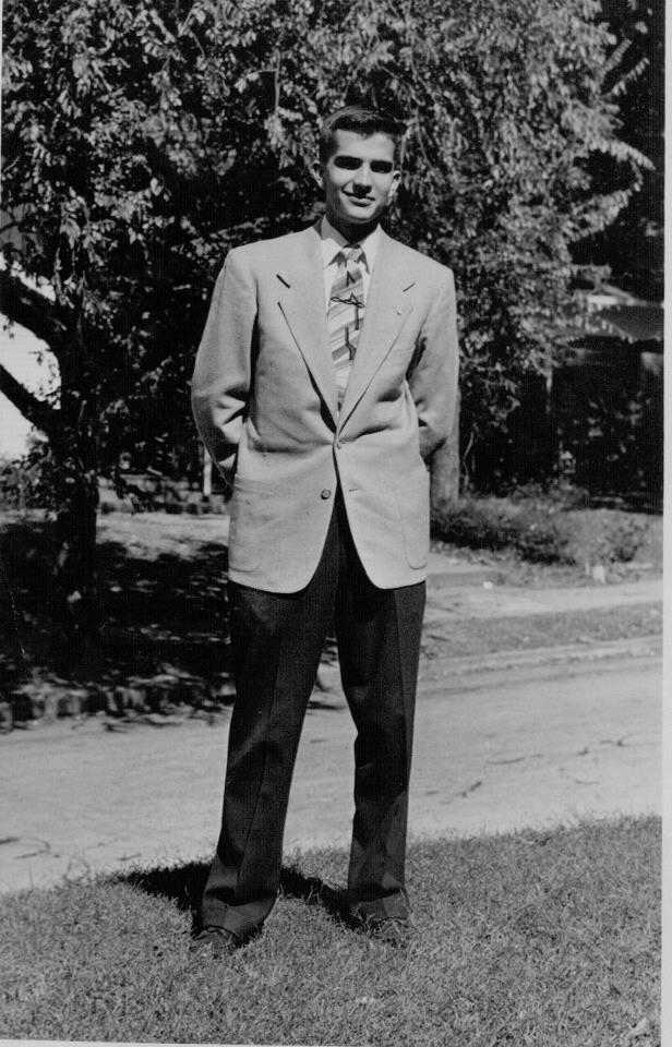 Photo of J. Rogers Hollingsworth taken in Anniston, Alabama in the 1950s.